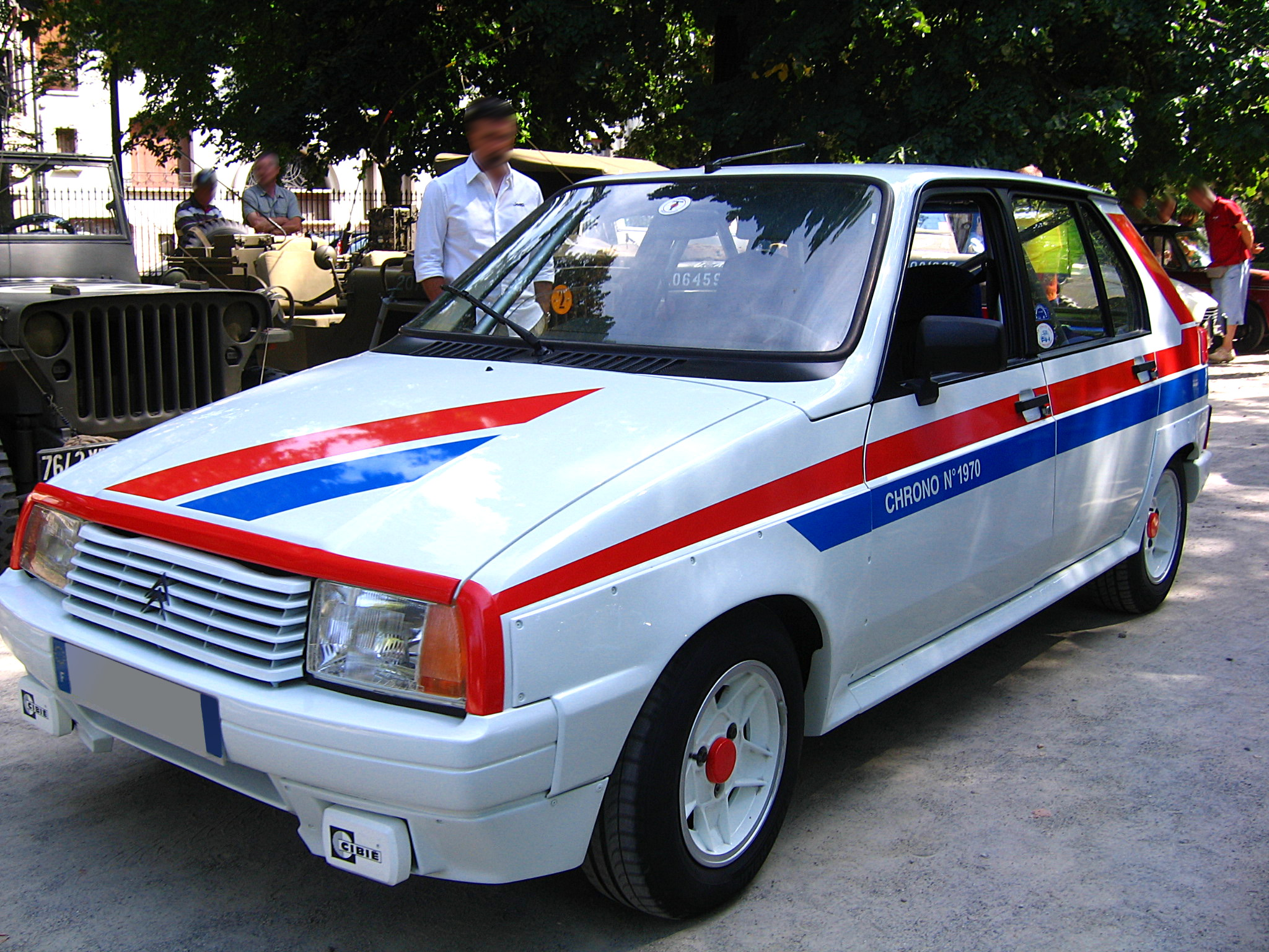 Number 1970 on 2,160 (France) // Number 1970 on 3,810 (whole world).